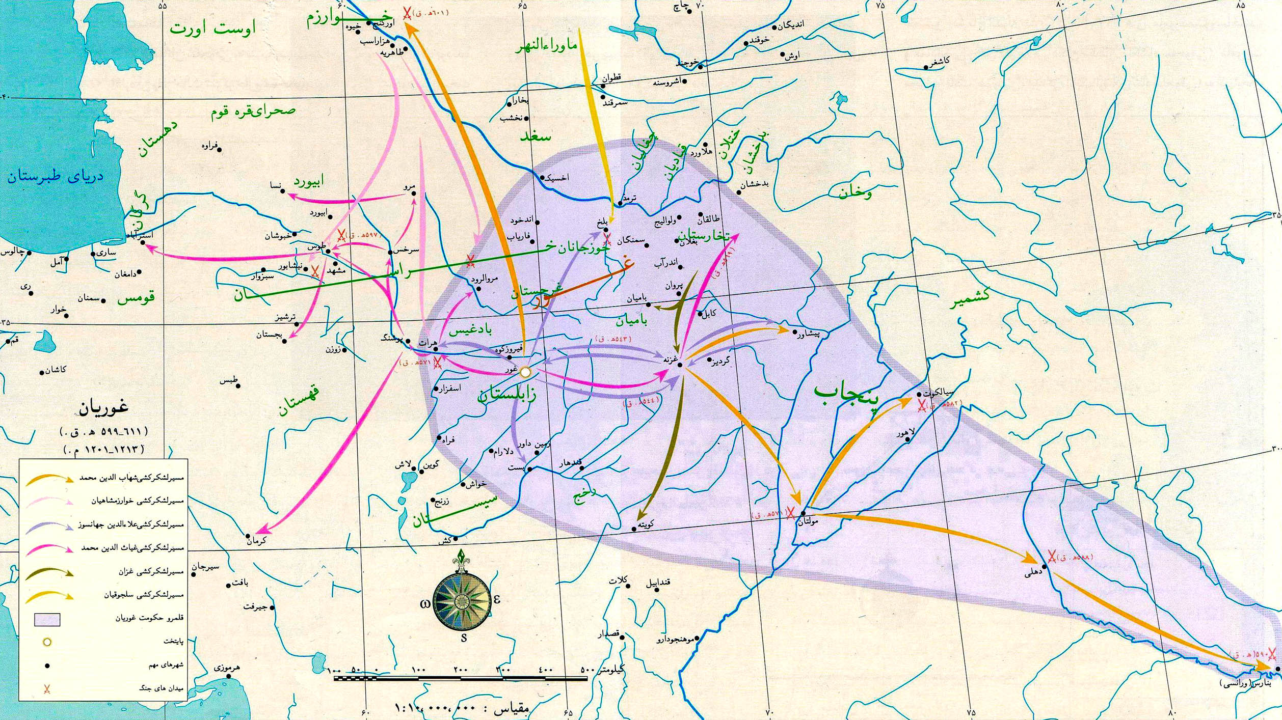 Territory of ghurids 1201-1213 AD